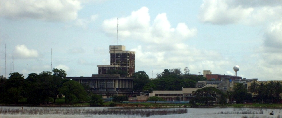 UNILAG, Lagos.